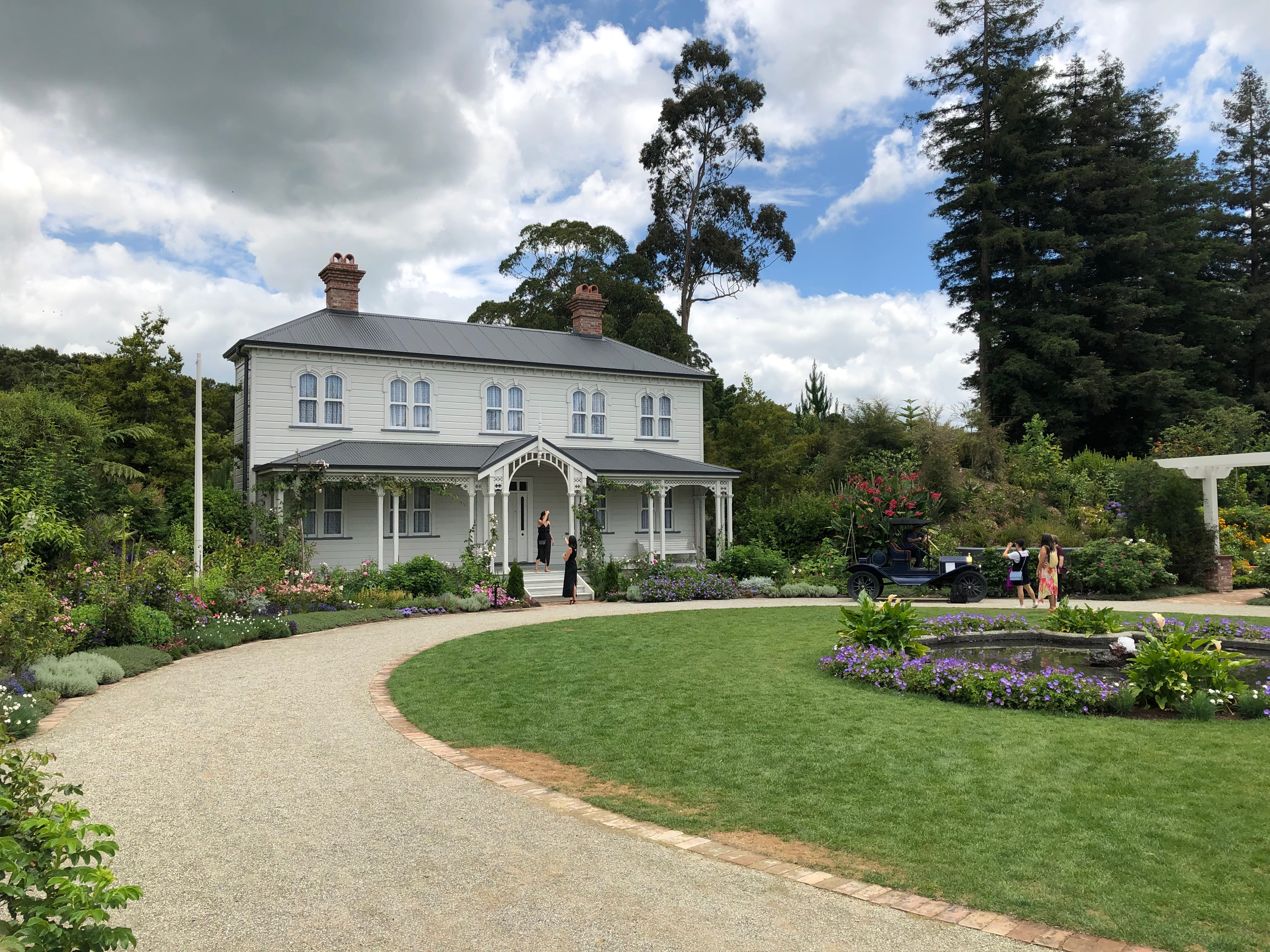 Katherine Mansfield Garden